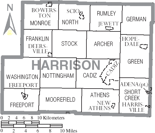 Map of Harrison County, Ohio, United States with township and municipal boundaries